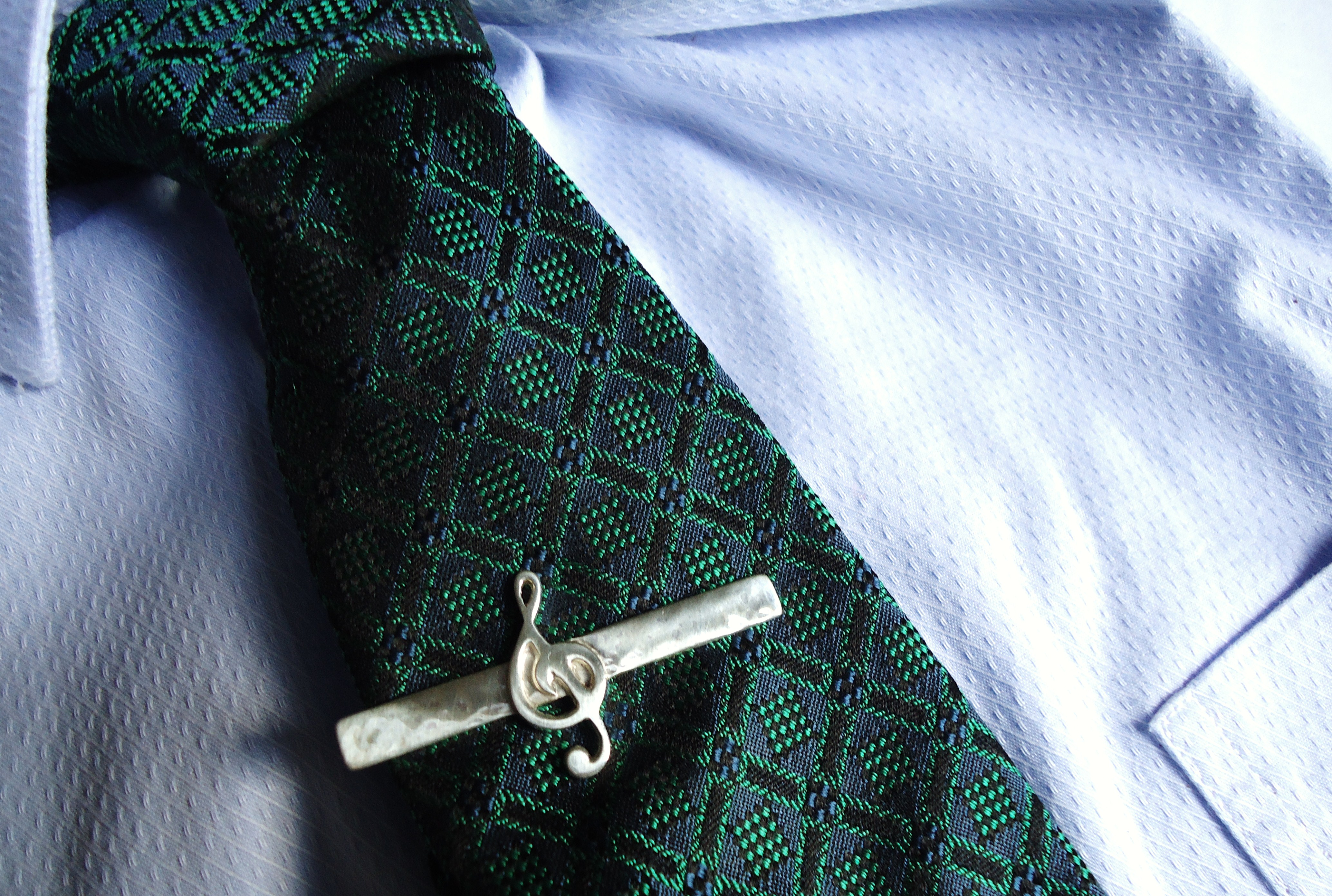 Treble clef tie clip. Silver. Made by Mauro Cateb, Brazilian jeweler and silversmith.